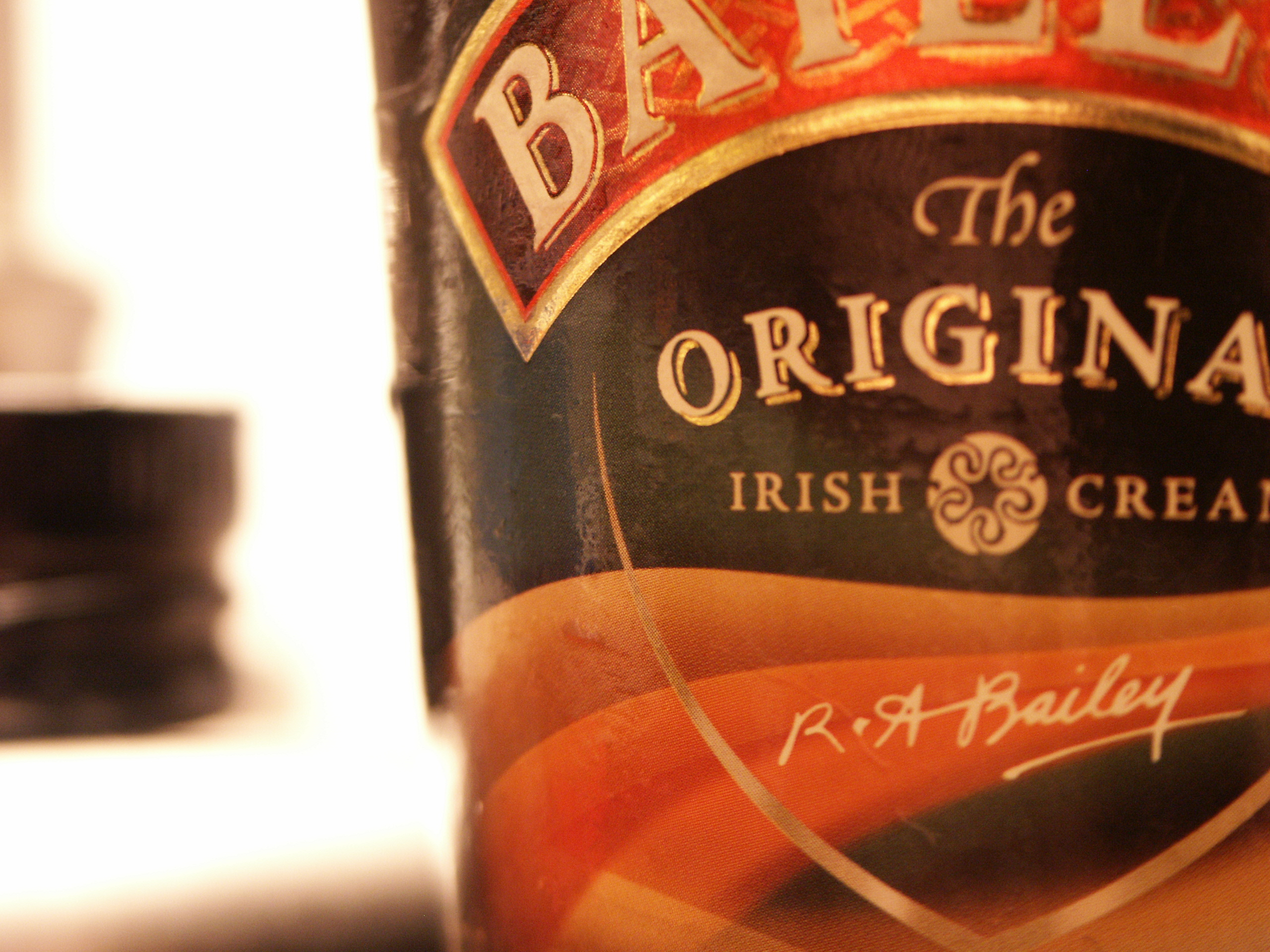 Practice using my Minolta's macro function and contrasting light levels in the background vs. foreground. Picture by Justin V. A. Slater. All rights released by the author.